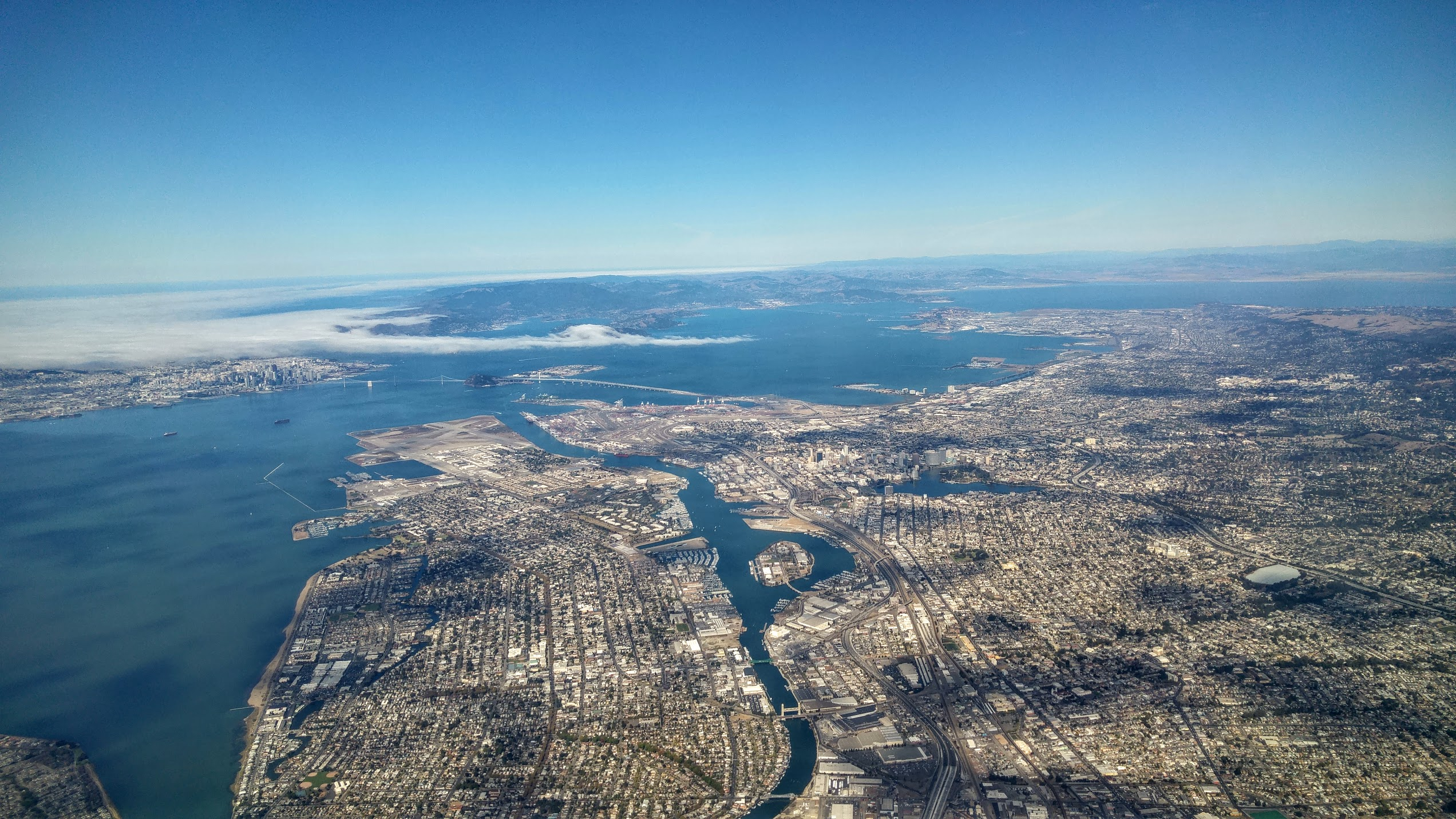 The East Bay region of the San Francisco Bay Area, with San Francisco and Marin County in the background.